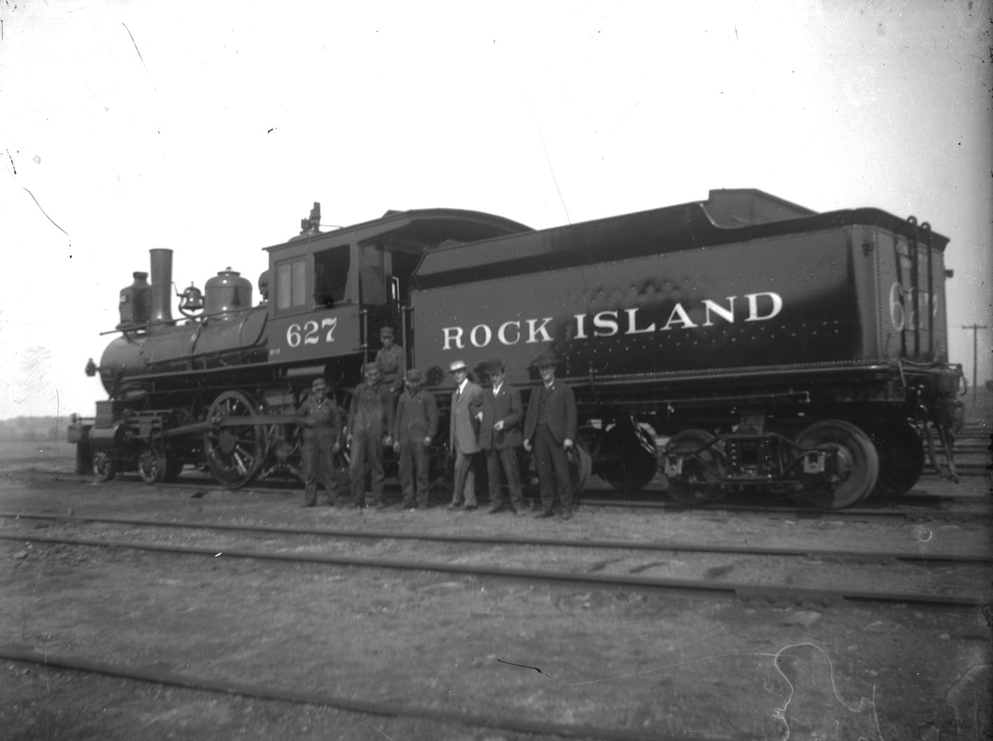 Rock Island Locomotive #627, circa 1910 Photographer: Hook, William Edward Publisher: Utah State Historical Society URL